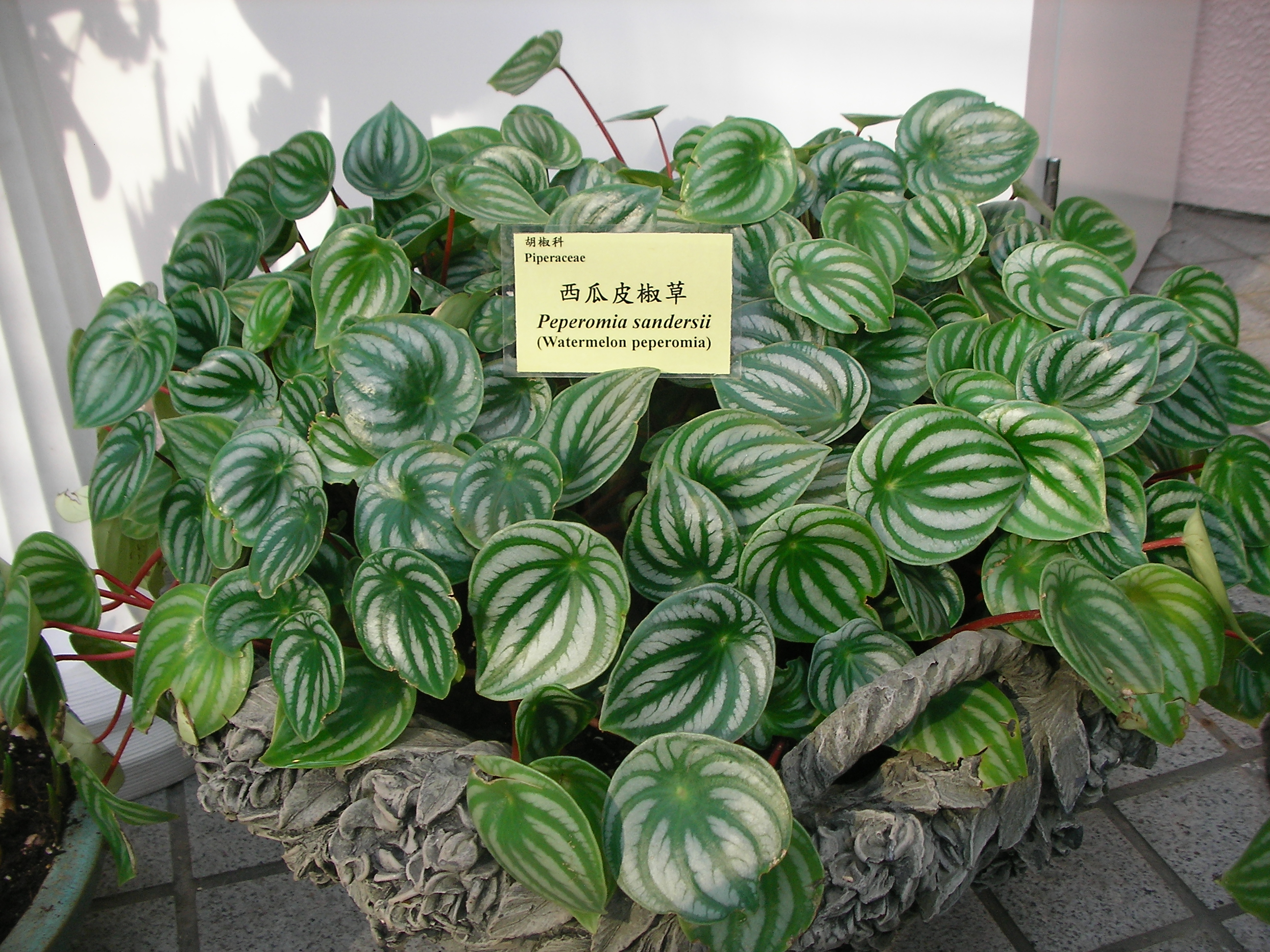 Photo of Peperomia sandersii at Forsgate Conservatory, Hong Kong Park